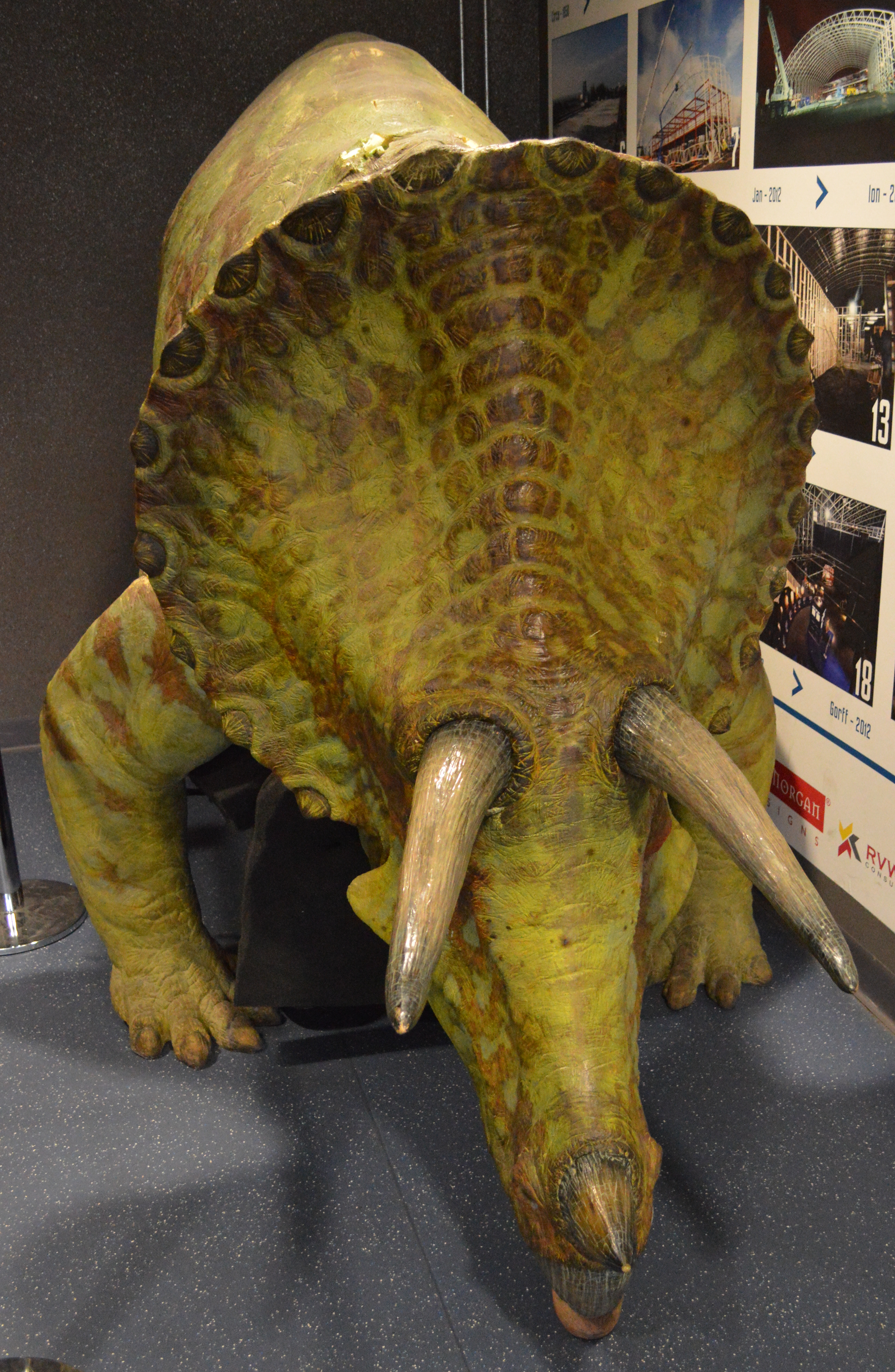 A Triceratops model from the Doctor Who Experience